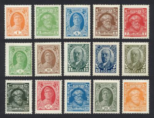 Stamp of USSR